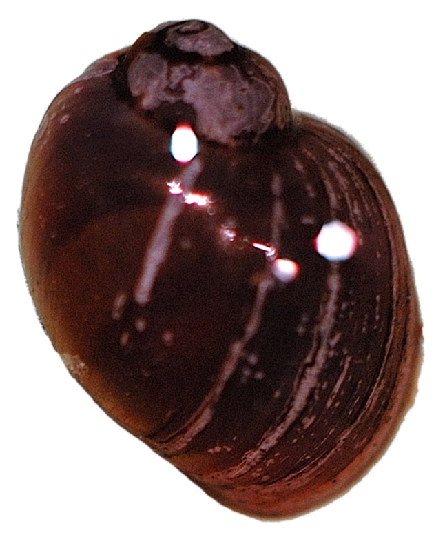 Photo of Bulinus truncatus truncatus.